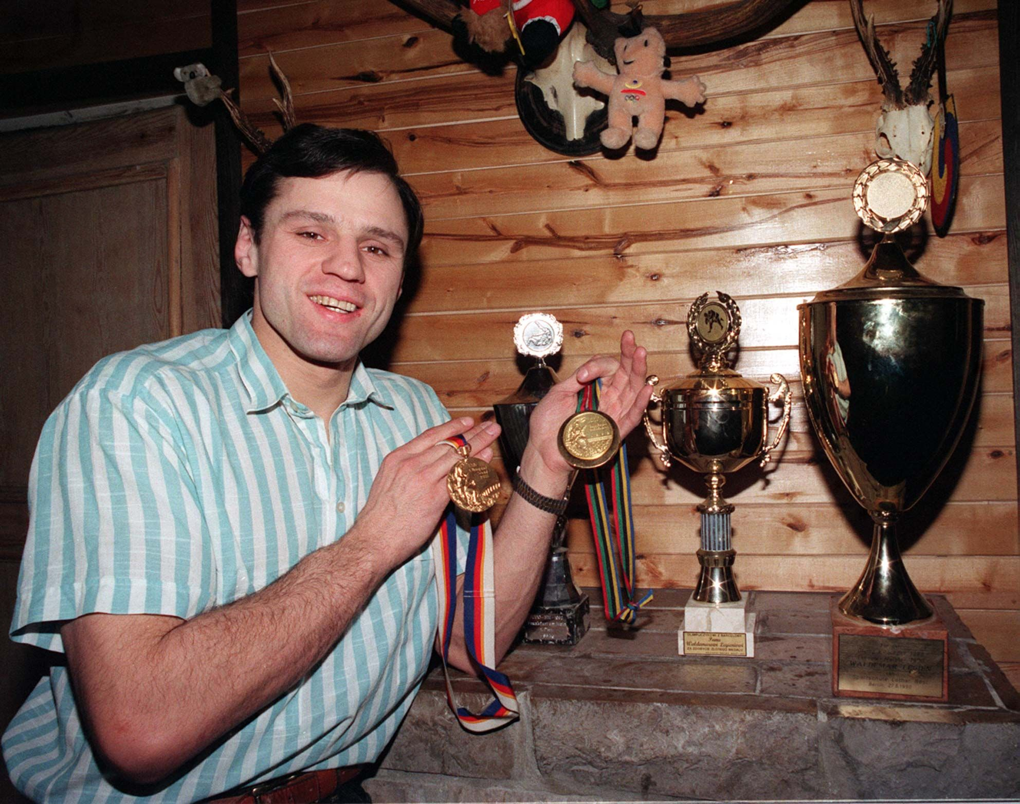 Waldemar Legień, 1988 Olympics